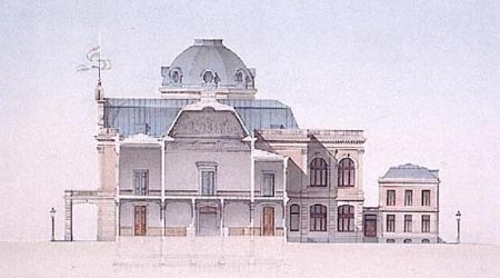 Design for the Rijksmuseum, Amsterdam, cross section. 1875. Amsterdam, Rijksmuseum (?).